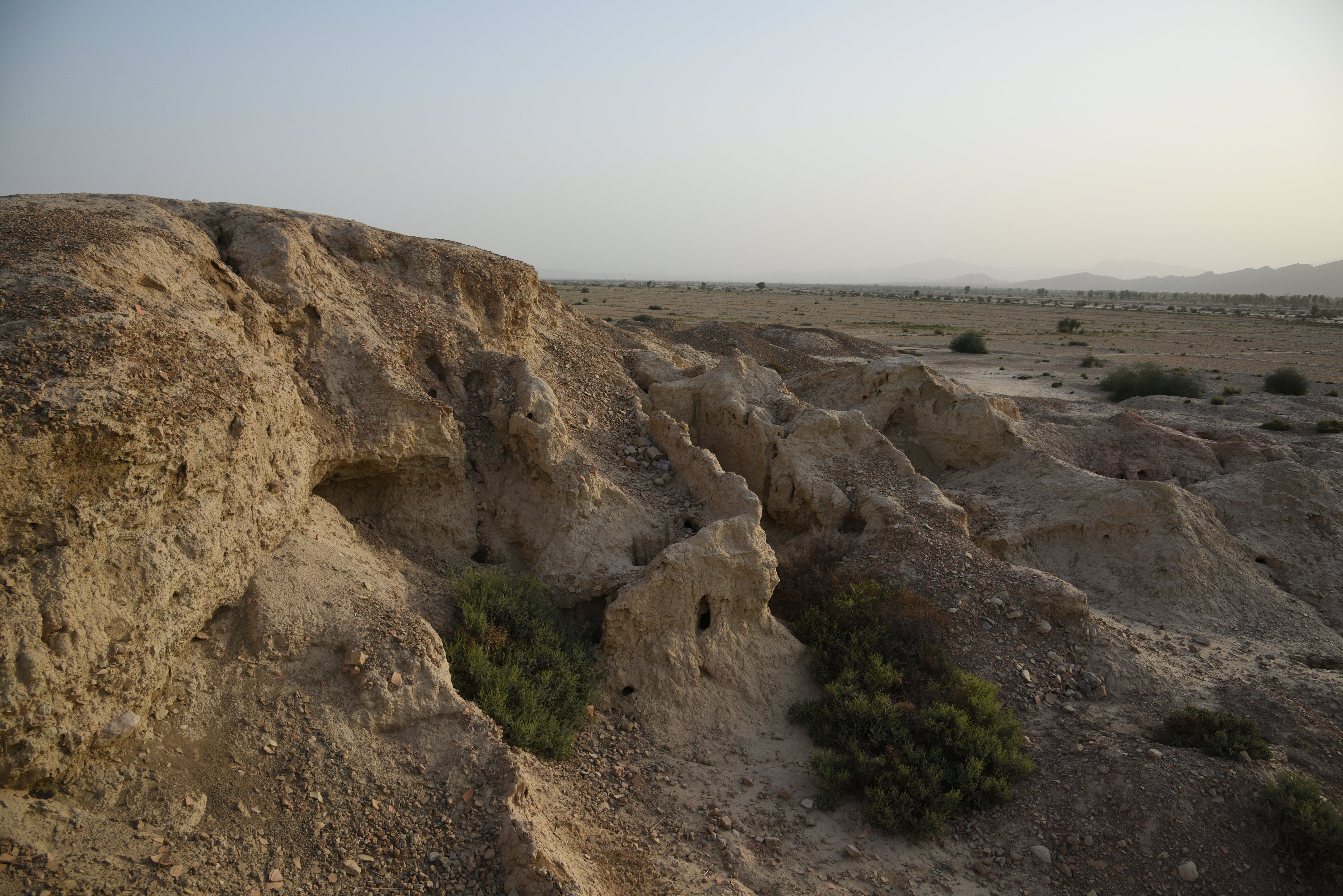 Archaeological site of Mehrgarh, on the Kacchi Plain of Balochistan, Pakistan This is a photo of a monument in Pakistan identified as the BA-28